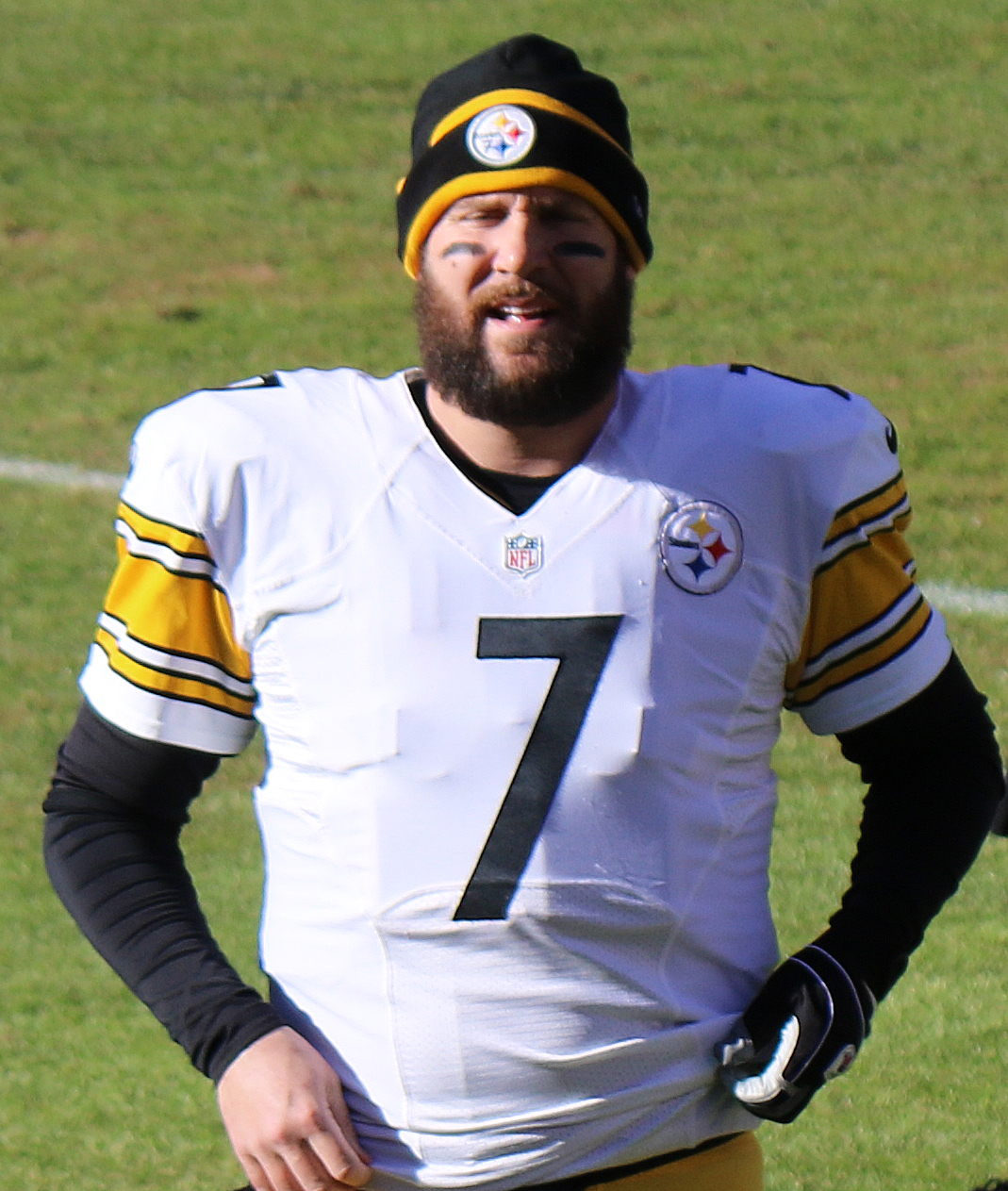 Ben Roethlisberger, a player on the National Football League. This picture was shot during the pre-game warm-up before a 2015 NFL season playoff game between the Pittsburgh Steelers and the Denver Broncos on January 17, 2016.